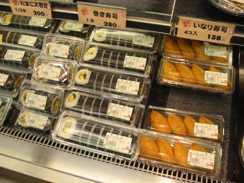 Photo I took in of a sushi case in a Kansai Super in Kōbe, Japan. At center is vegetarian sushi and on the right, packages of inari. At ¥280 (about $2.40) and ¥158 (about $1.35) the prices are significantly lower than these items would be in the US (and much larger as well, it would seem). I took the photo on 3 July 2005 (timestamp is set for Eastern time in the US).